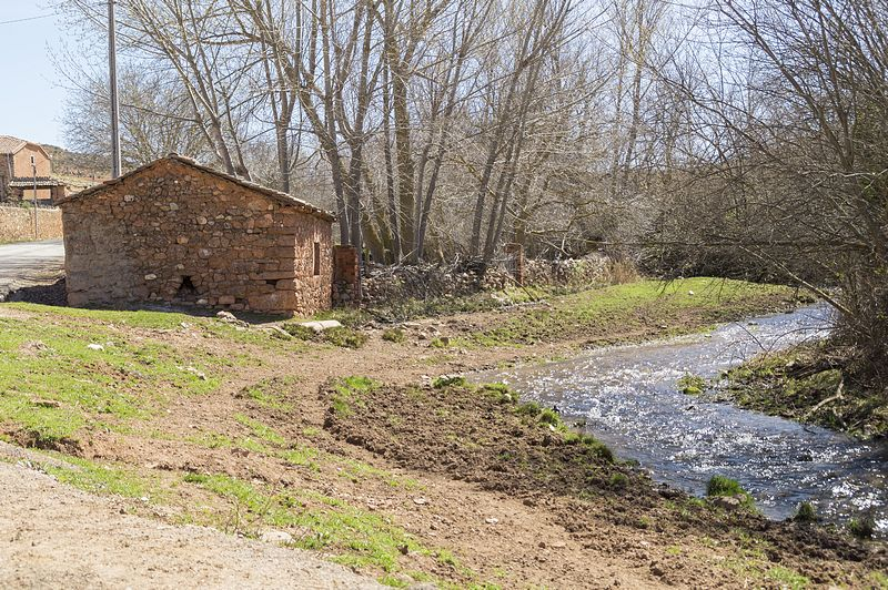 El río